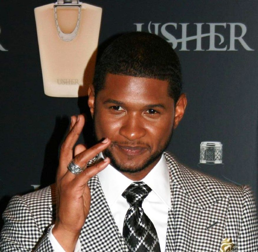 Usher Raymond during a product launching.